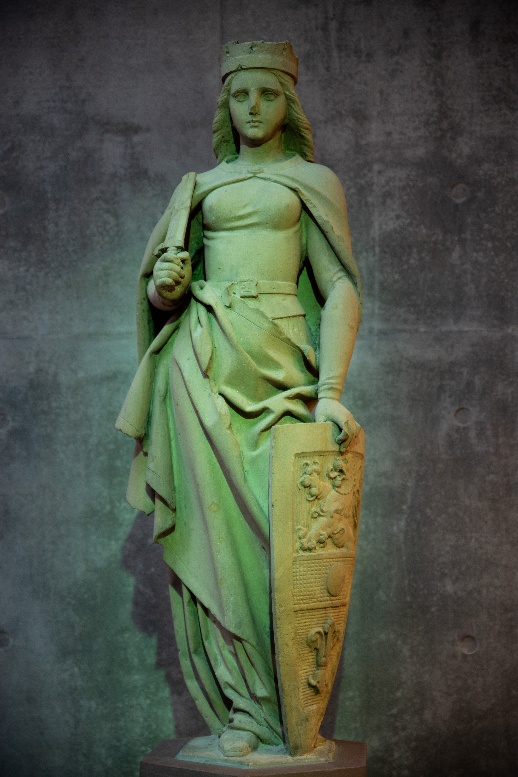 Original statue Darmstadtia